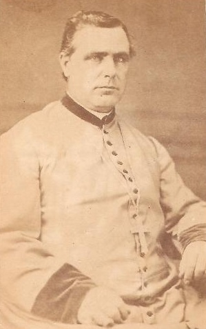 An image of Bishop Joseph Gregory Dwenger